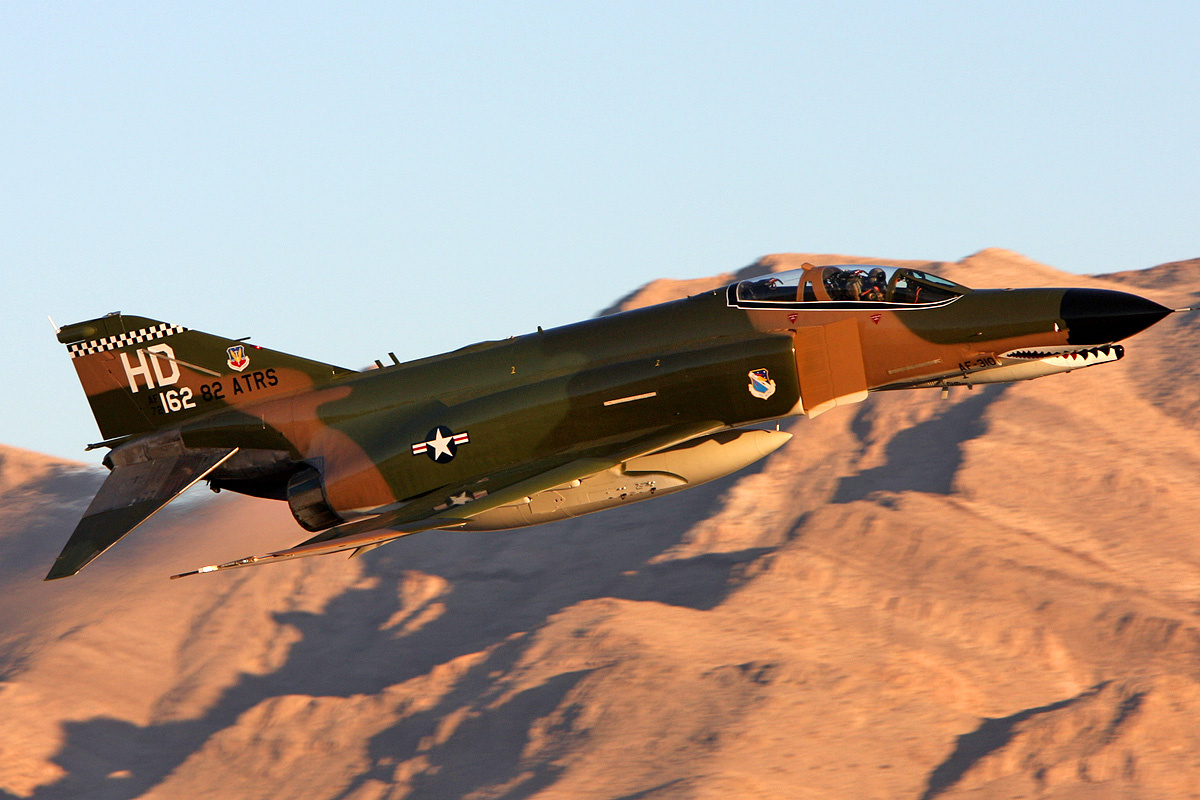 72-0162 / HD (cn 4341) at Las Vegas - Nellis AFB (LSV / KLSV)